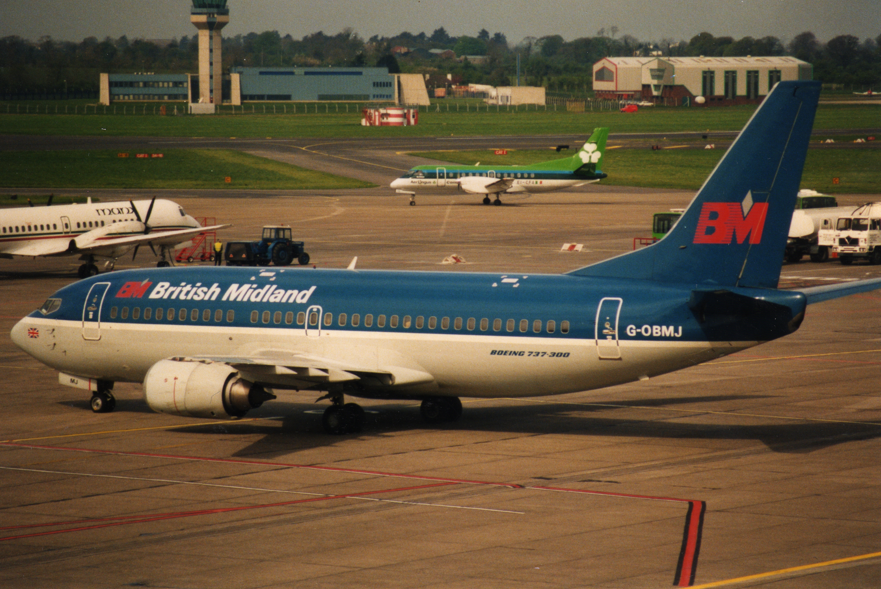 Bmi (G-OBMJ) Boeing 737-300 aircraft, Dublin Airport, Dublin, Republic of Ireland, May 1994 (with Aer Lingus (EI-CFA) Saab 340 aircraft in the background)